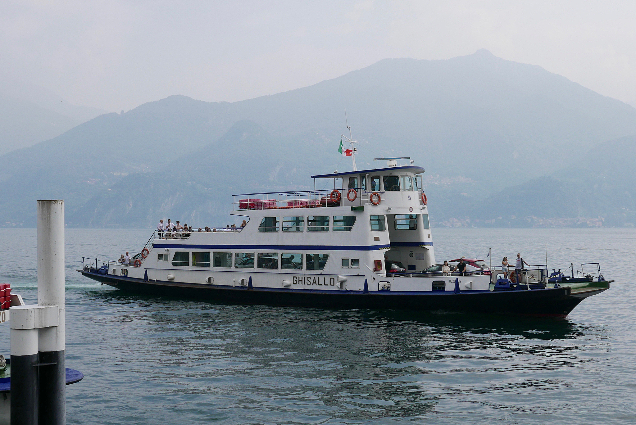 Ferry-boat "Ghisallo" arriving at Menaggio.